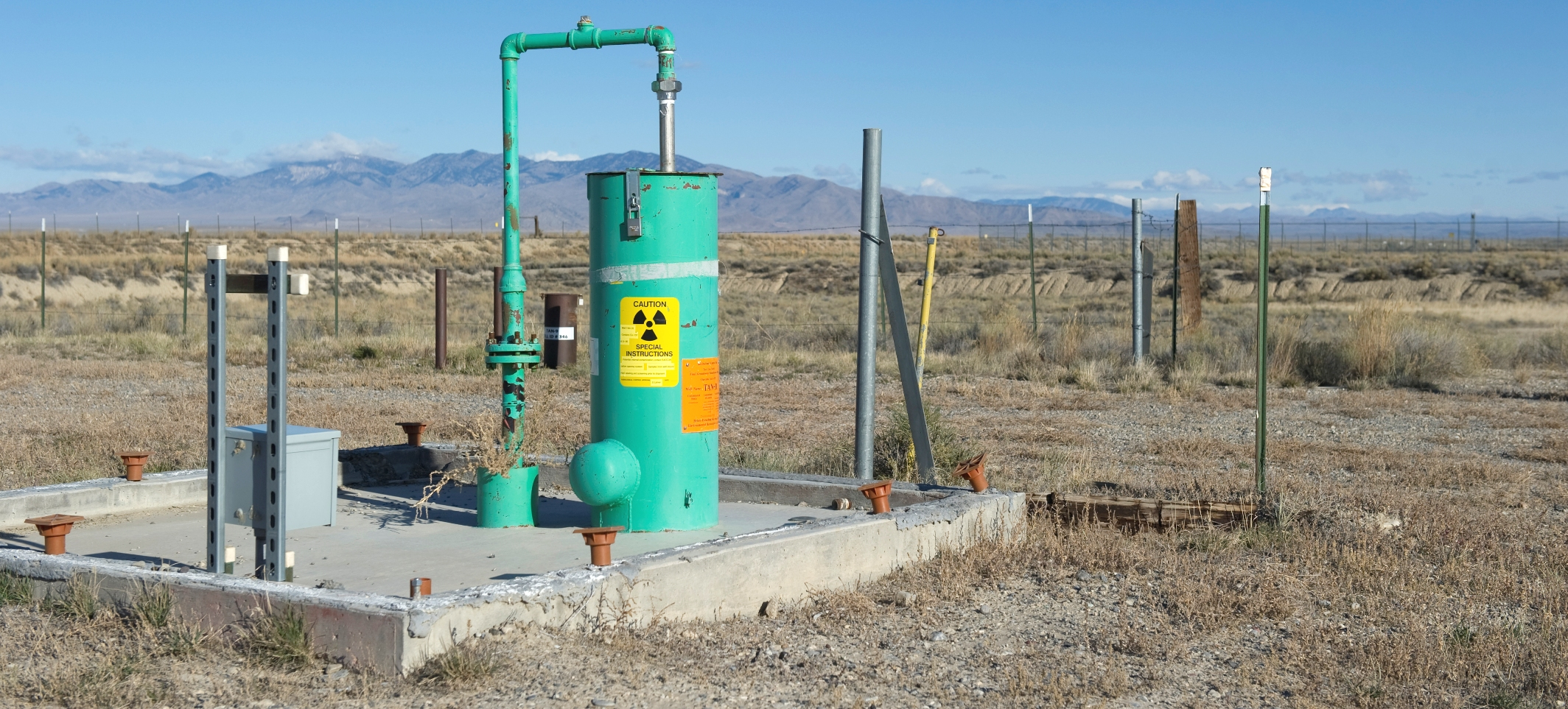 This well is used to inject the protein source — whey powder — for microorganisms in an in situ bio-remediation process. Workers at the Idaho site have enlisted microbes to help remediate previously contaminated groundwater and advance the protection of the Snake River Plain Aquifer. The microbes in the aquifer are fed a mixture of sodium lactate and whey powder, a common ingredient found in sport protein drinks. “The microbes eat it, and in the process break down trichloroethylene (TCE). Although TCE is a carcinogen, the end products are harmless,” said Lorie Cahn, environmental lead for Environmental Restoration (ER) and Comprehensive Environmental Response, Compensation, and Liability Act (CERCLA) at CH2M-WG Idaho (CWI), the Idaho site’s main cleanup contractor.